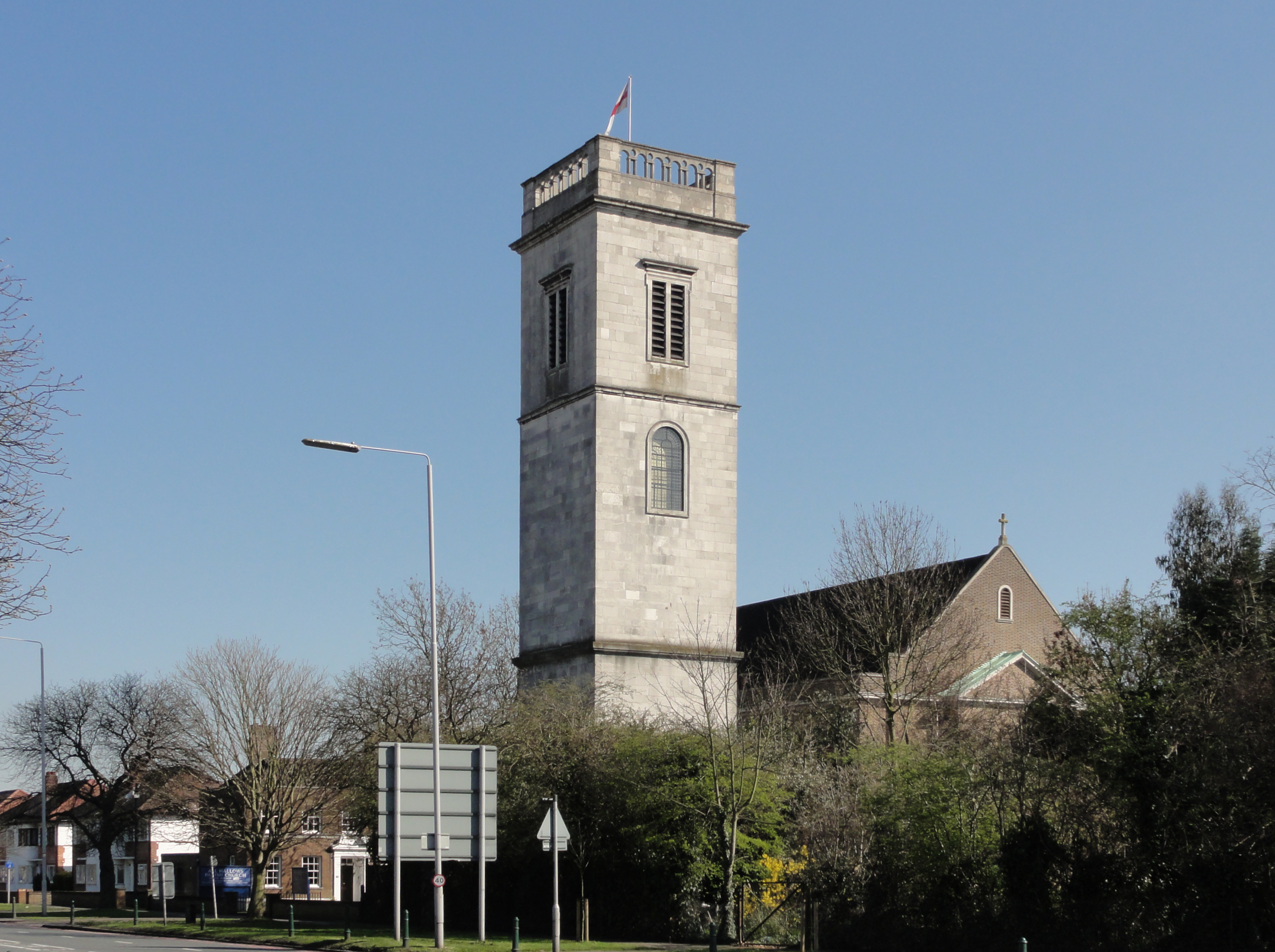 Church of England parish church of All Hallows, Chertsey Road, Twickenham, West London, seen from the west